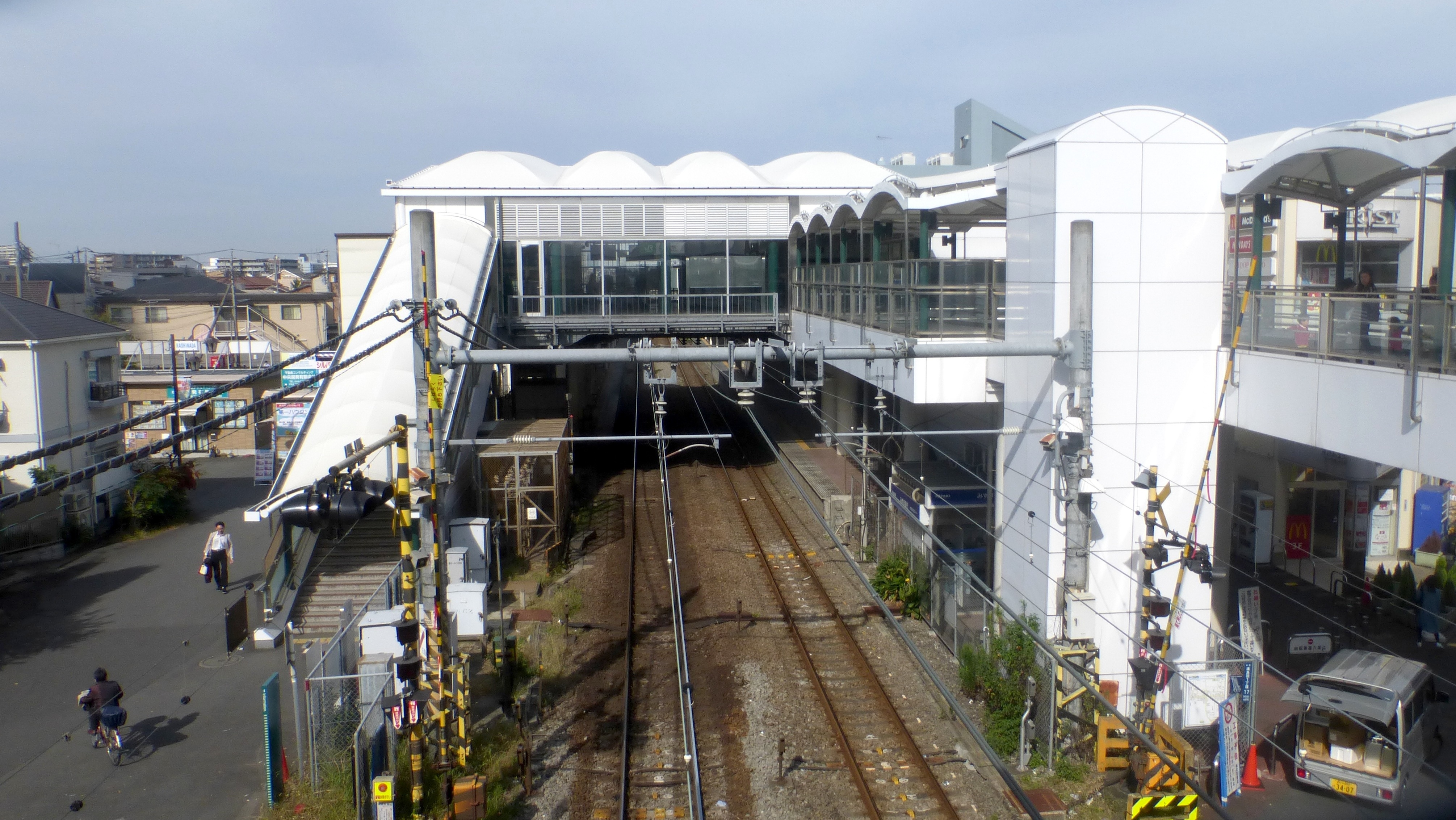 Kashimada Station on the Nambu Line, viewed from the south end